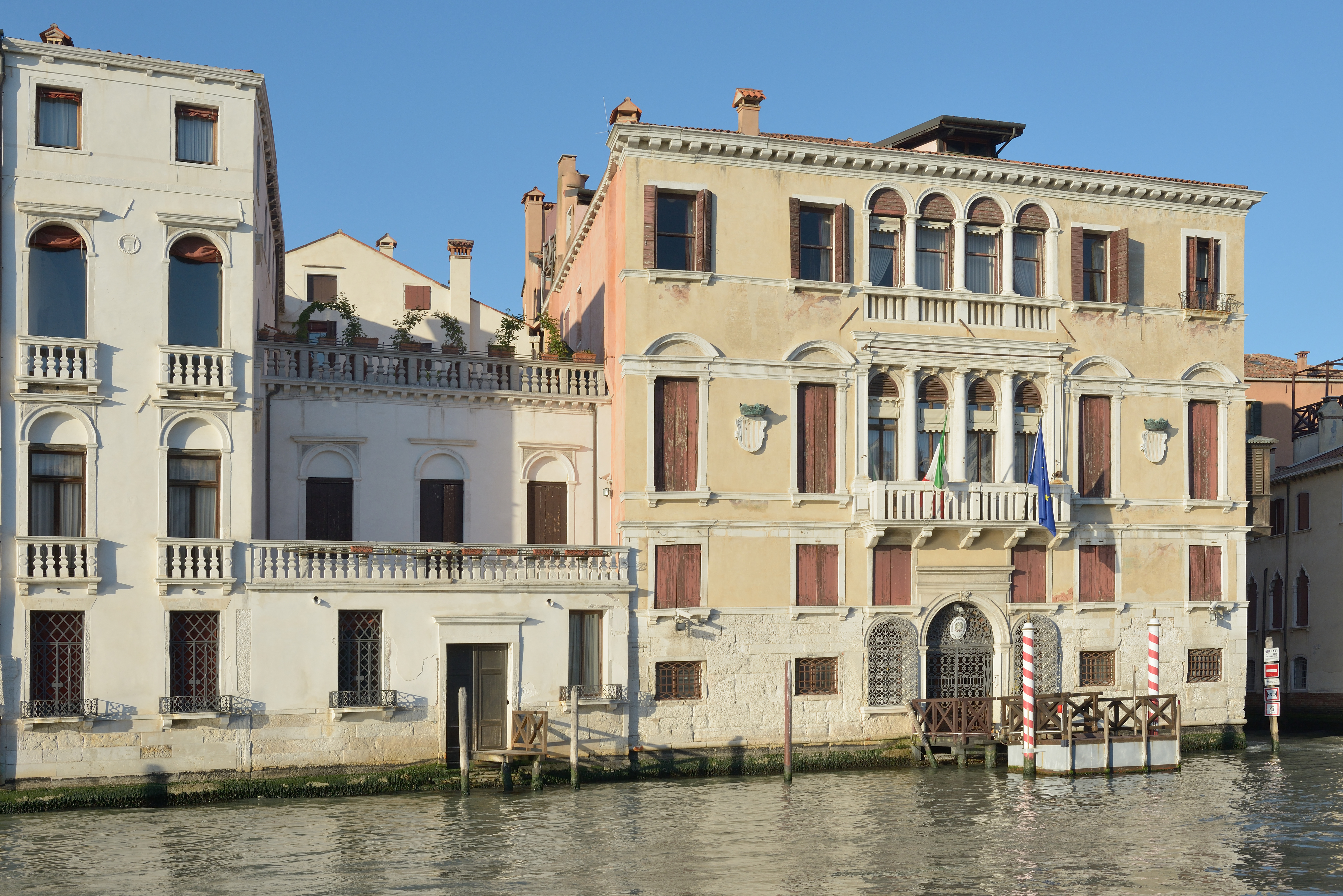 The Bragadin Velluti palace on the left and Palazzo Gussoni Grimani Della Vida on the Canal Grande in Venice.